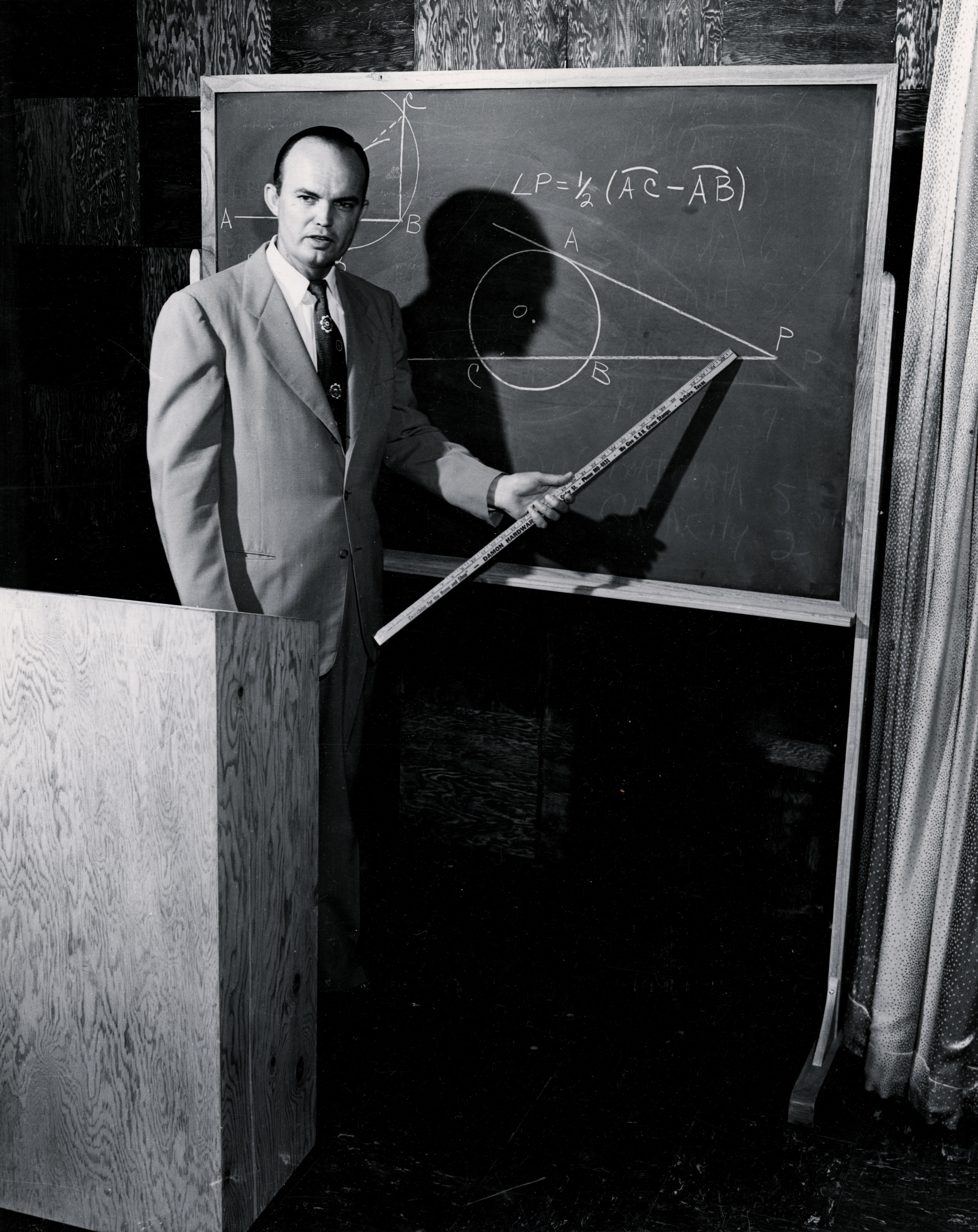 Geometry lessons on a chalkboard. Courtesy of Special Collections, University of Houston Libraries. UH Digital Library.